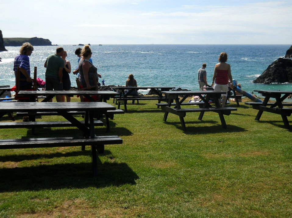 kynance cove, lizard peninsula